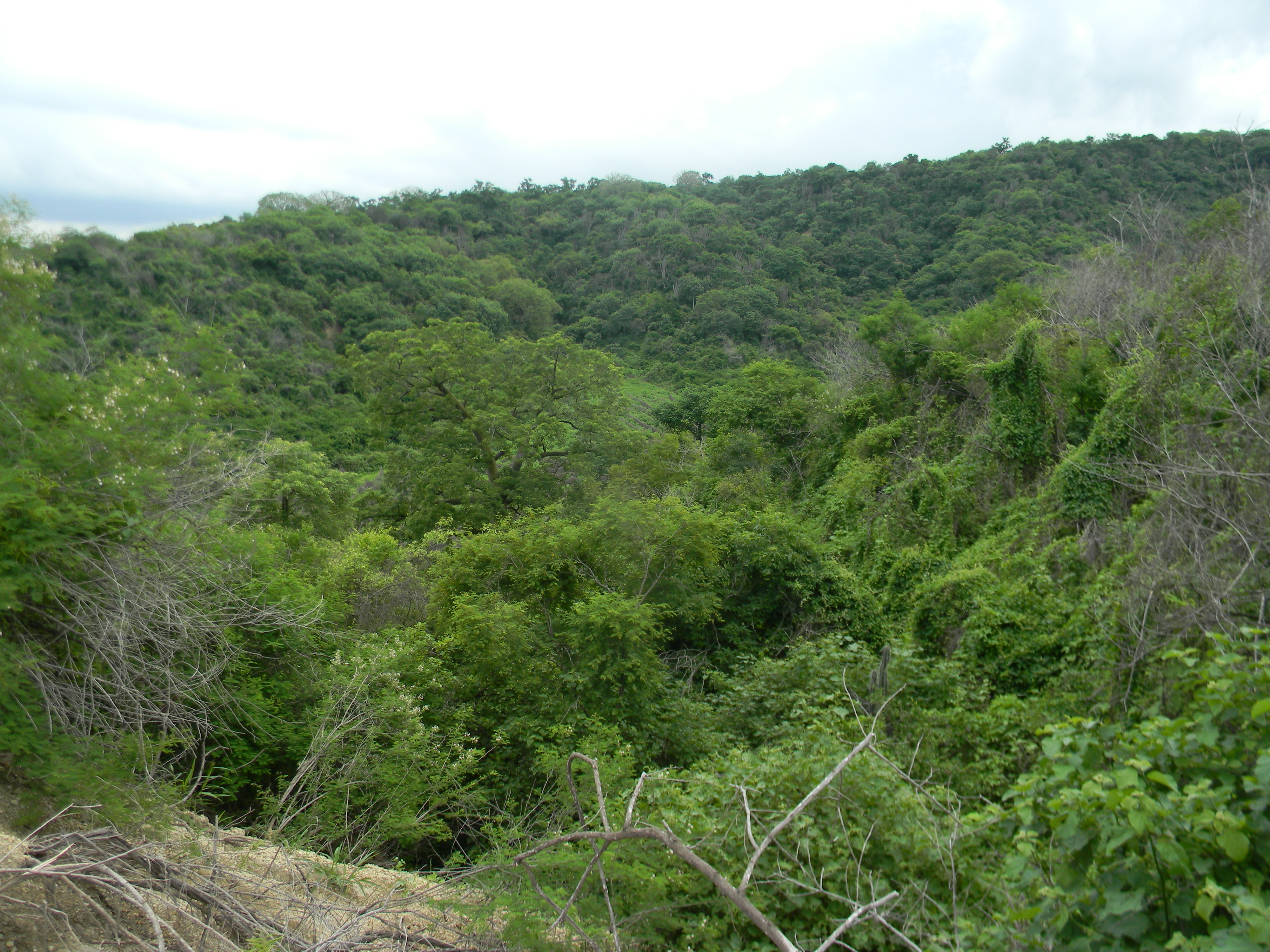 Bosque Seco Tropical